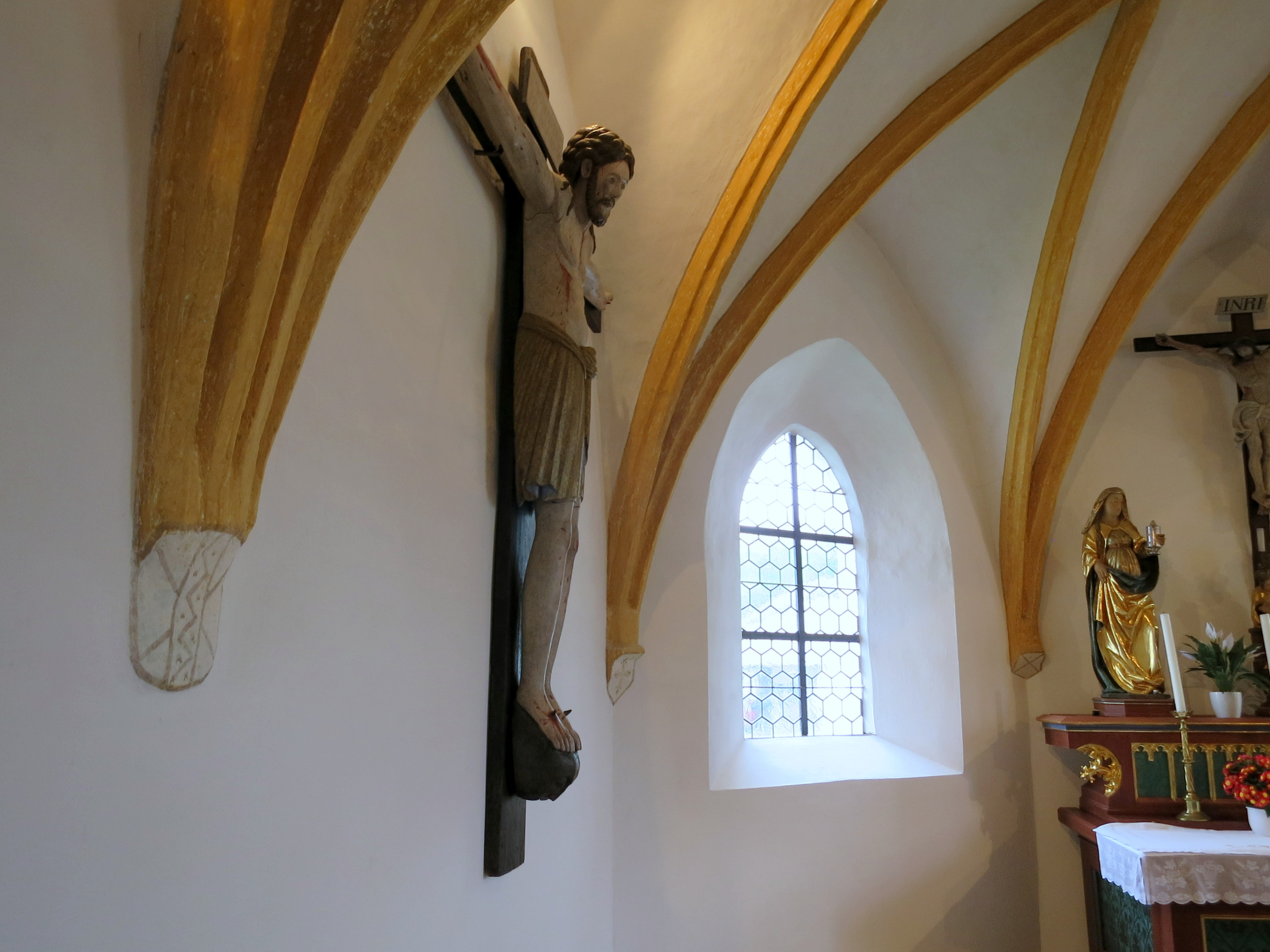 A little church, Holy Cross, in Enghausen near Mauern in Bavaria